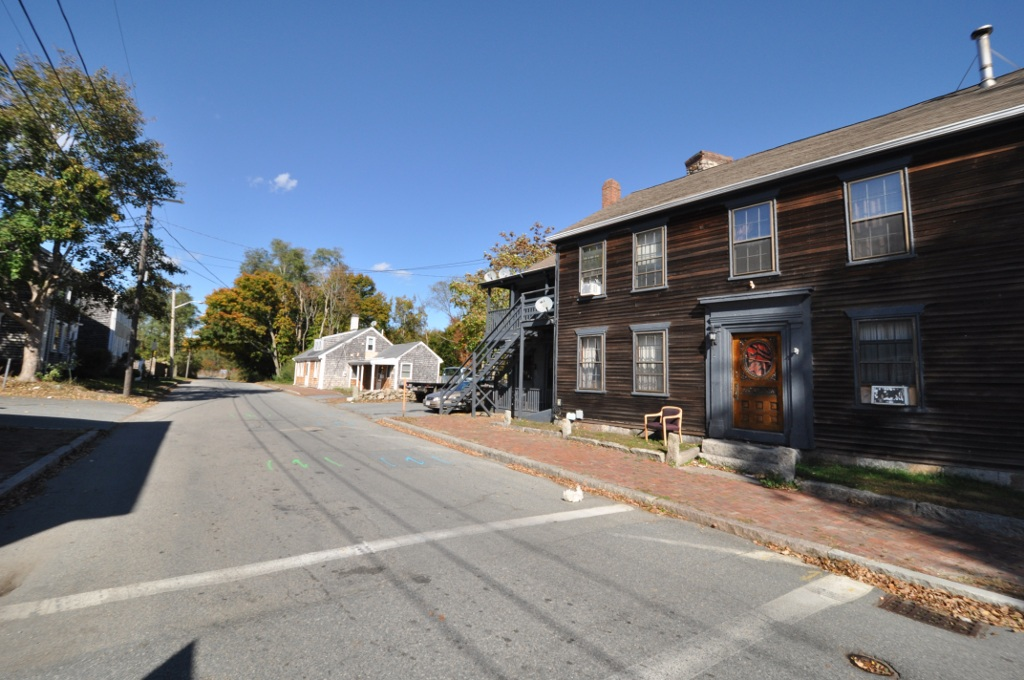 Mill Street, New Bedford, Massachusetts; part of the Head of the River Historic District.